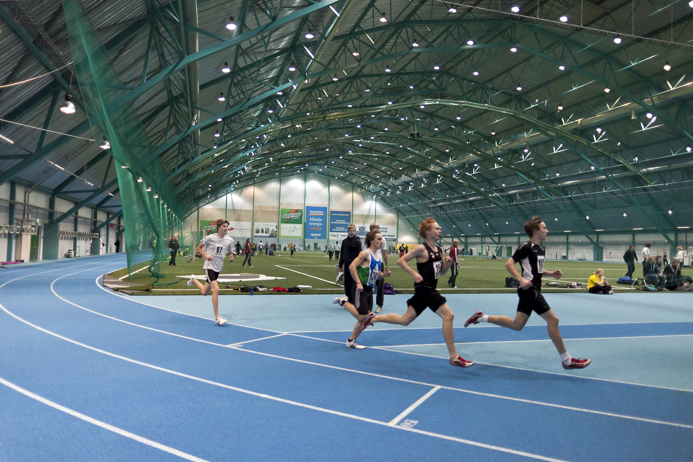 Uusi Pajulahti-halli sisältä.